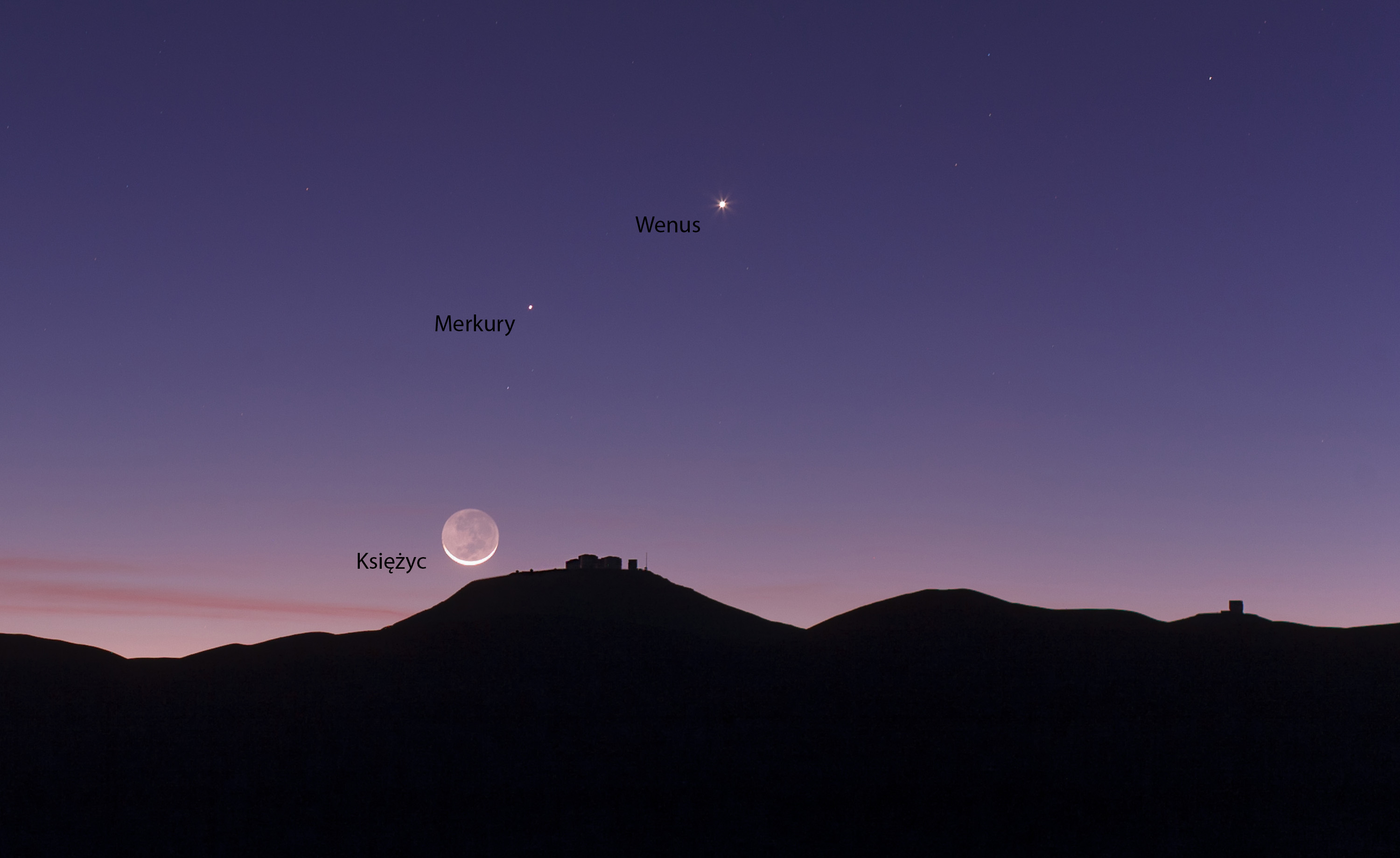 This view shows the thin crescent Moon setting over ESO’s Paranal Observatory in Chile. As well as the bright crescent the rest of the disc of the Moon can be faintly seen. This phenomenon is called earthshine. It is due to sunlight reflecting off the Earth and illuminating the lunar surface. By observing earthshine astronomers can study the properties of light reflected from Earth as if it were an exoplanet and search for signs of life. This picture was taken on 27 October 2011 and also records the planets Mercury and Venus.